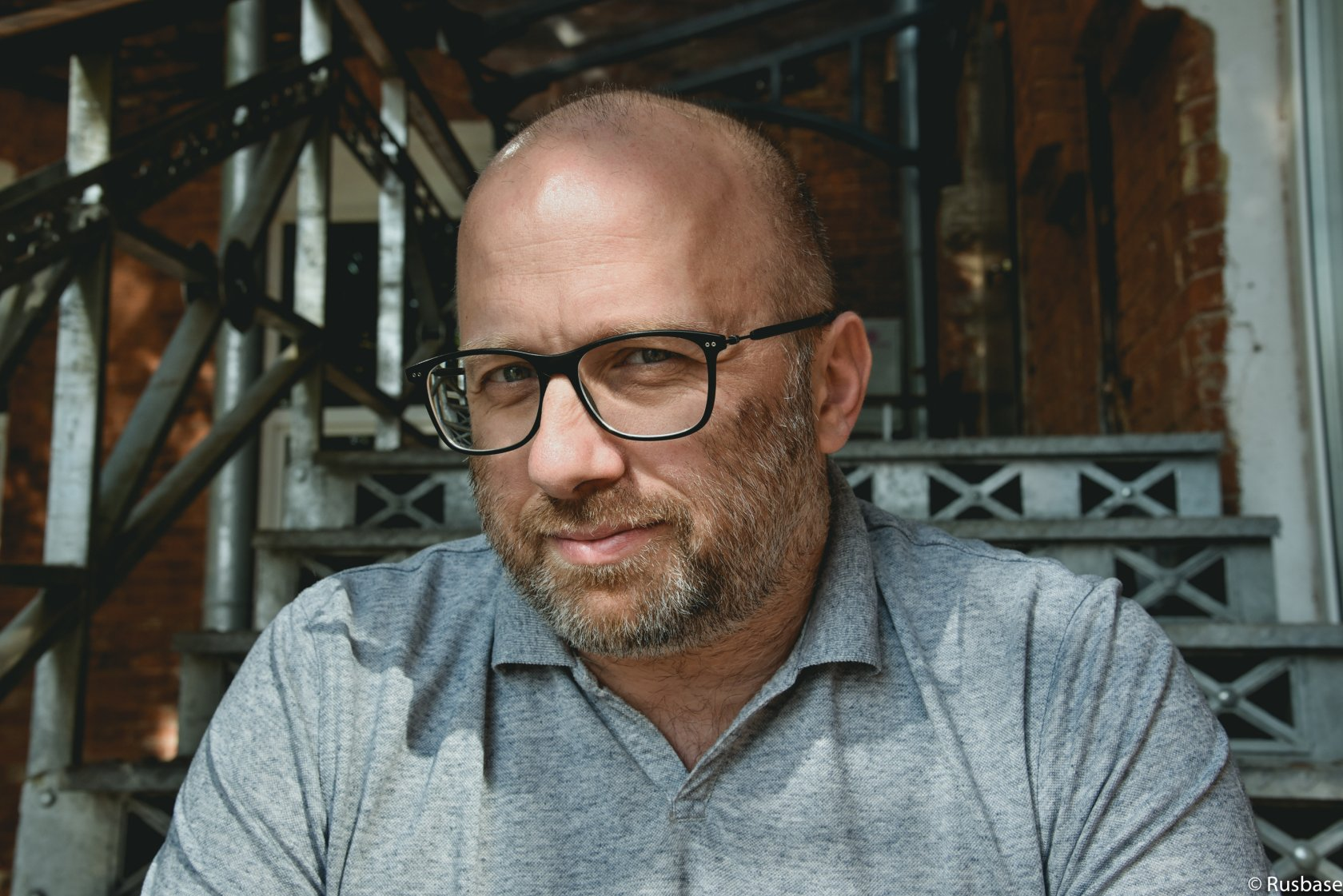 Artem Vasilyev portrait